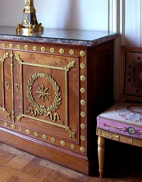 own work